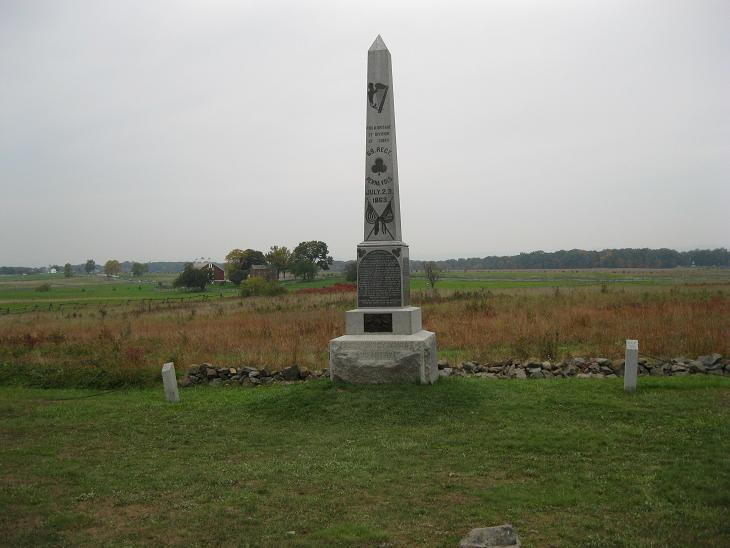 The 69th Pennsylvania Regiment monument at Gettysburg, looking west. This is where the unit faced Pickett's Charge, which began at the tree line in the distance.